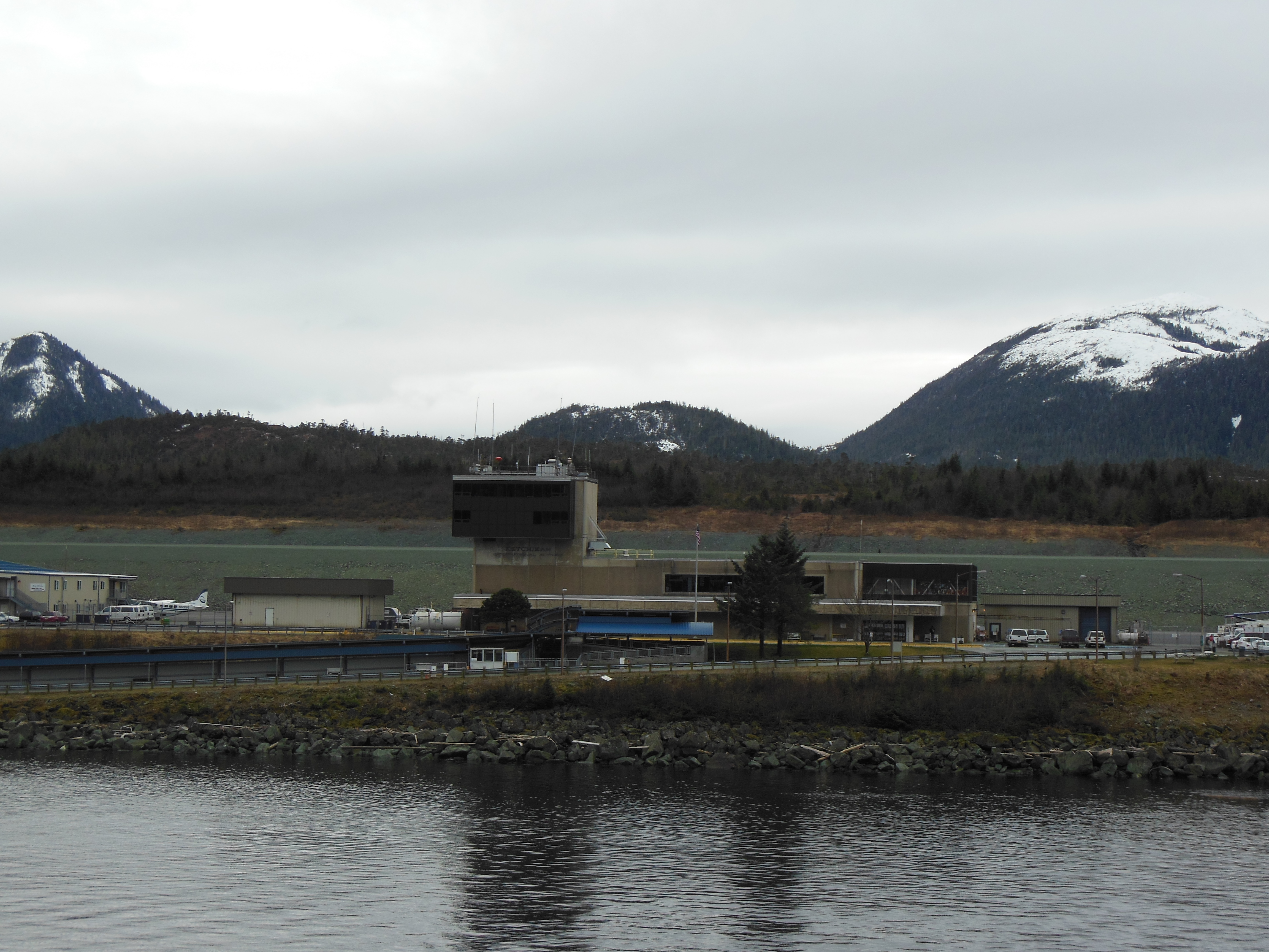 The terminal of Ketchikan International Airport, Gravina Island, Alaska, United States